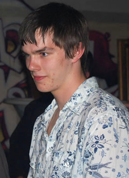 Actor Nicholas Hoult